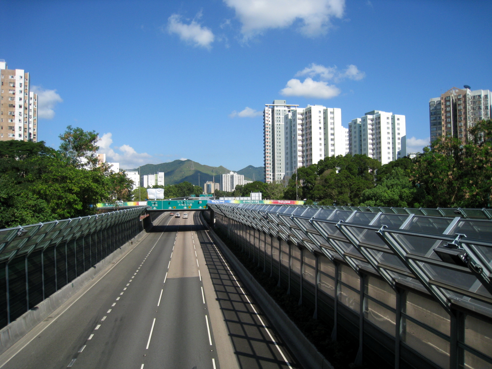 Fanling Highway Sheung Shui Section 粉嶺公路上水段